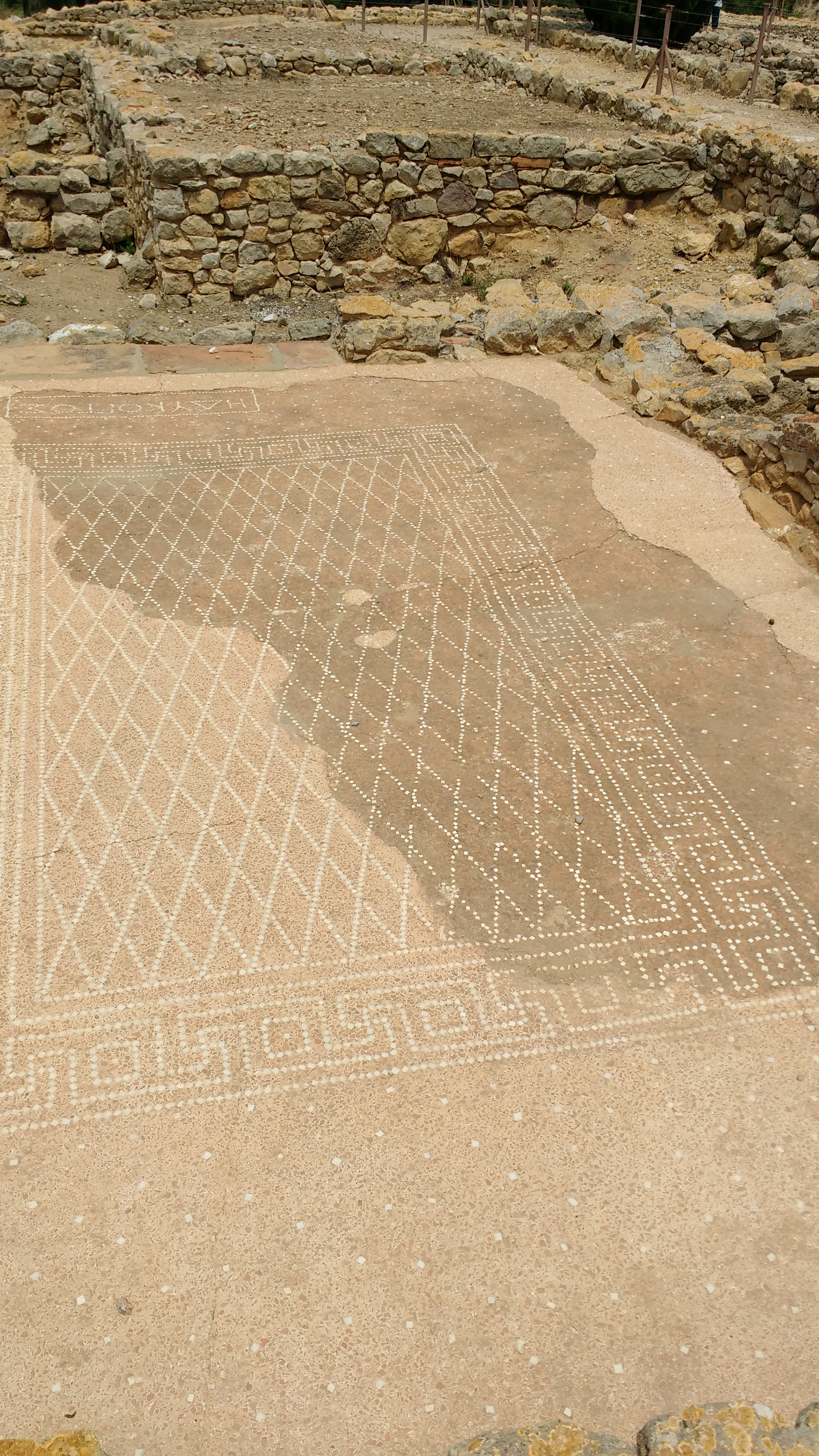 Ηδύκοιτος--"The pleasure of lying down"--can be seen at the top of the photograph.